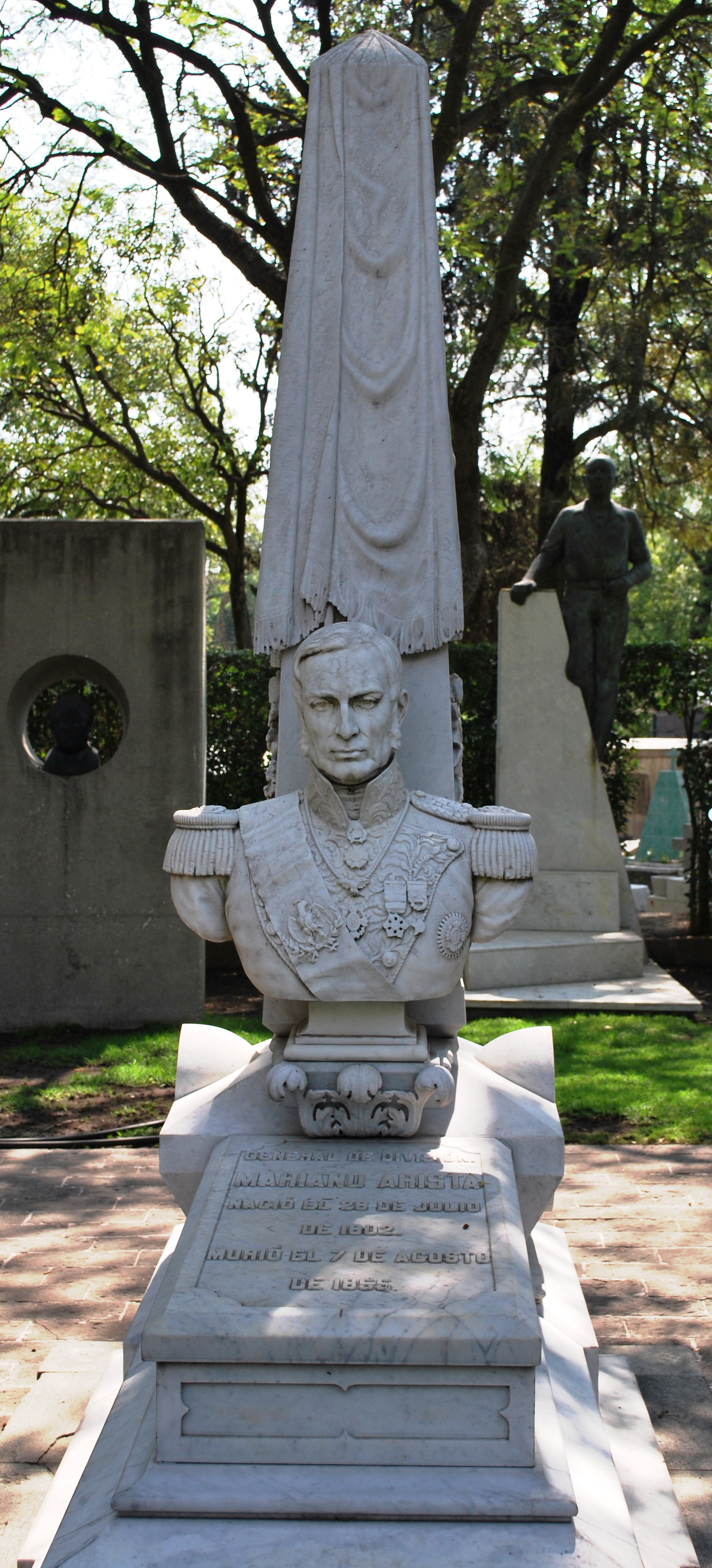 Tomb of General Mariano Arista in the Panteon Civil de Dolores cemetery in Mexico City